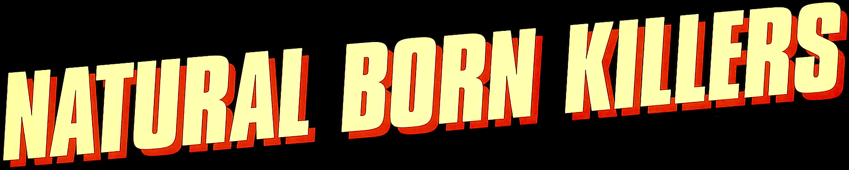 Logotype of the film "Natural Born Killers" taken from the original poster